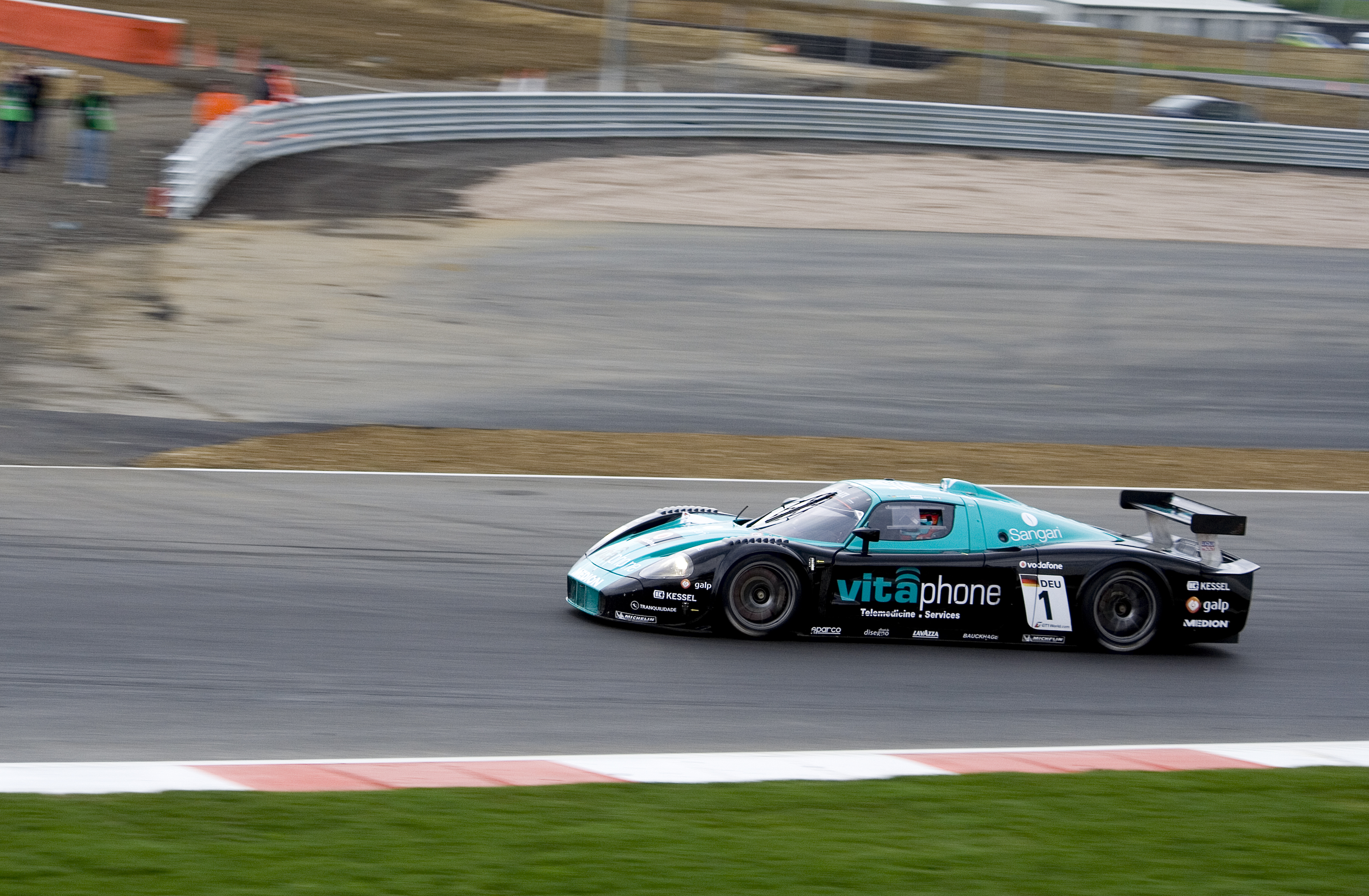 FIA GT1 Qualifying Race - Maserati MC12 (Vitaphone Racing)